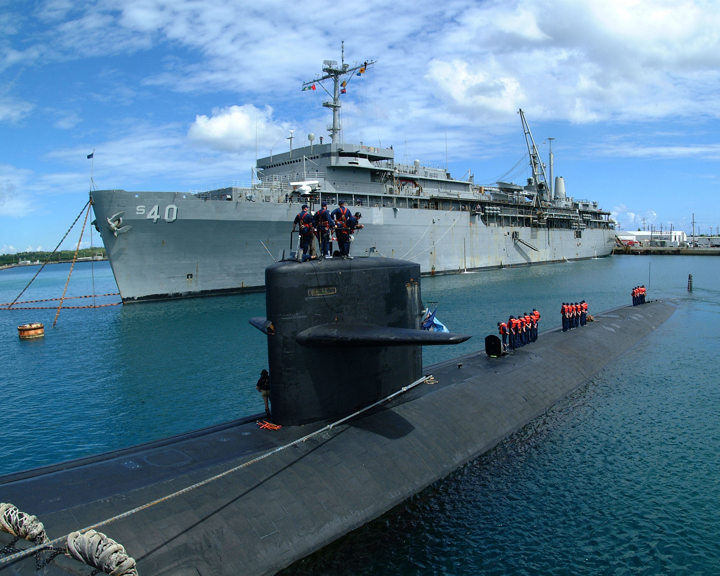 The U.S. Navy attack submarine USS Salt Lake City (SSN-716) pulls alongside the submarine tender USS Frank Cable (AS-40) at Apra Harbor, Guam, on 23 May 2002. The Frank Cable was in 2002 one of two forward deployed submarine tenders that provided services to submarines while away from their homeports.